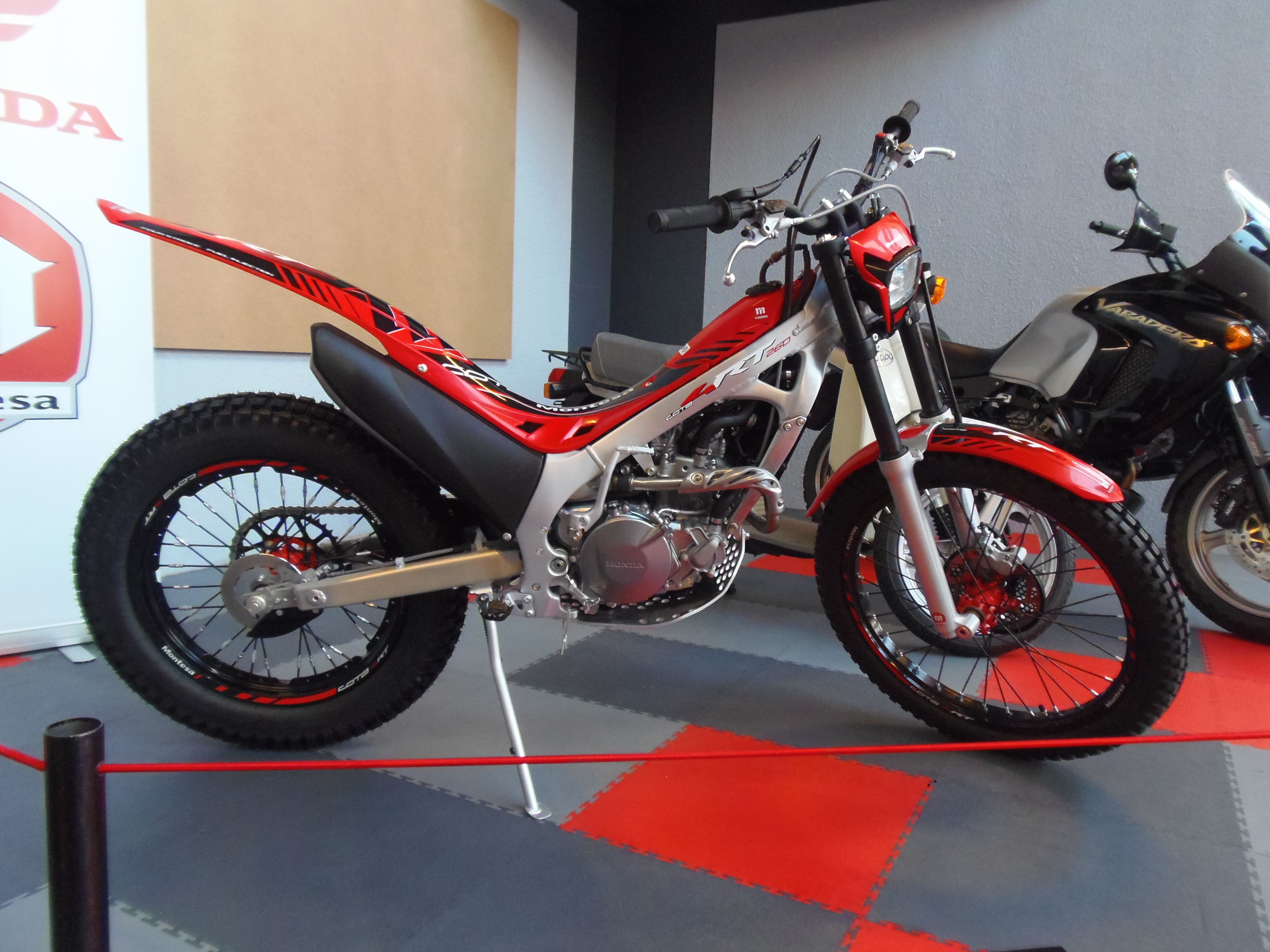 Montesa Cota 4RT 260, 2014